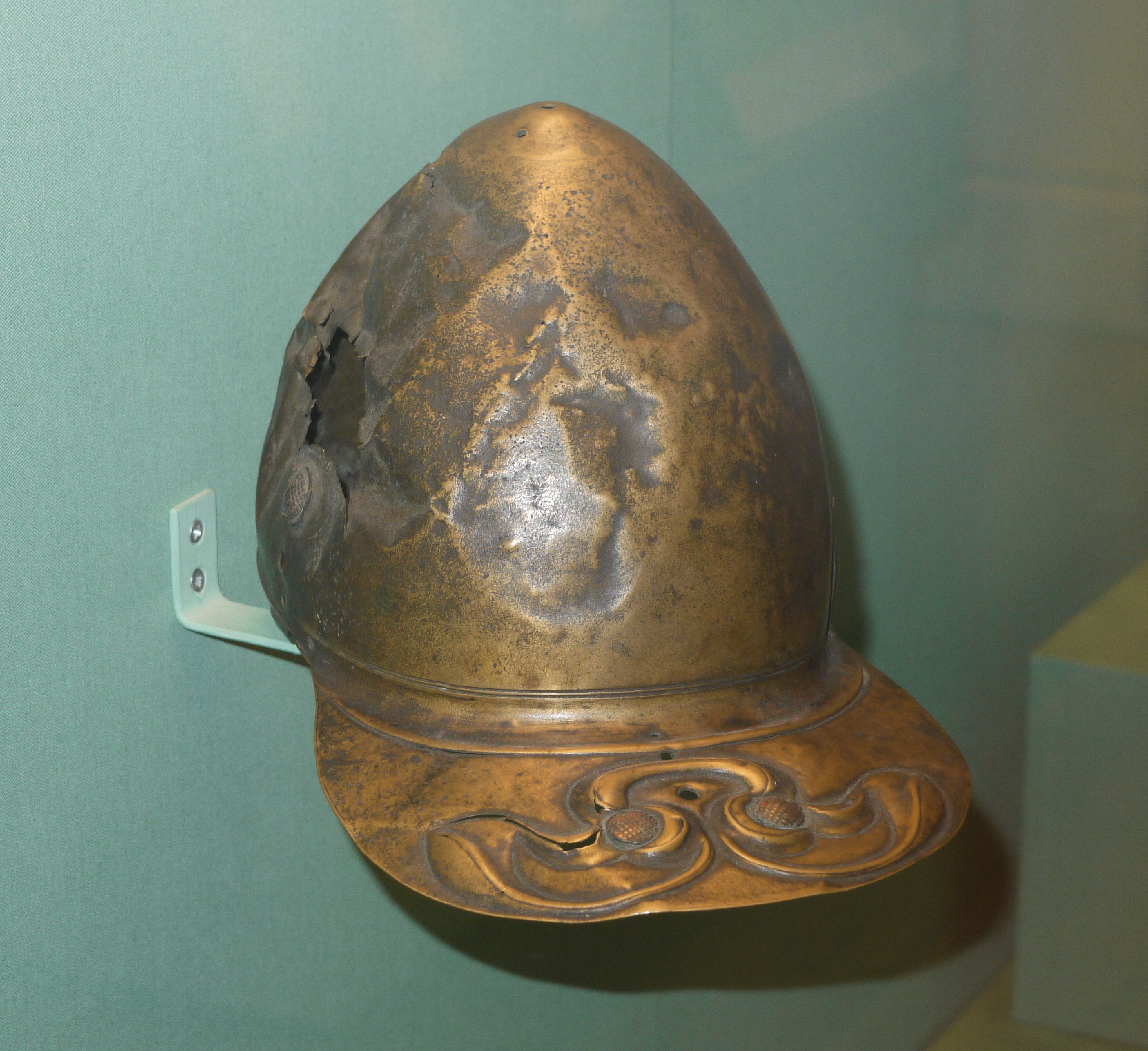 Photo of the Meyrick Helmet